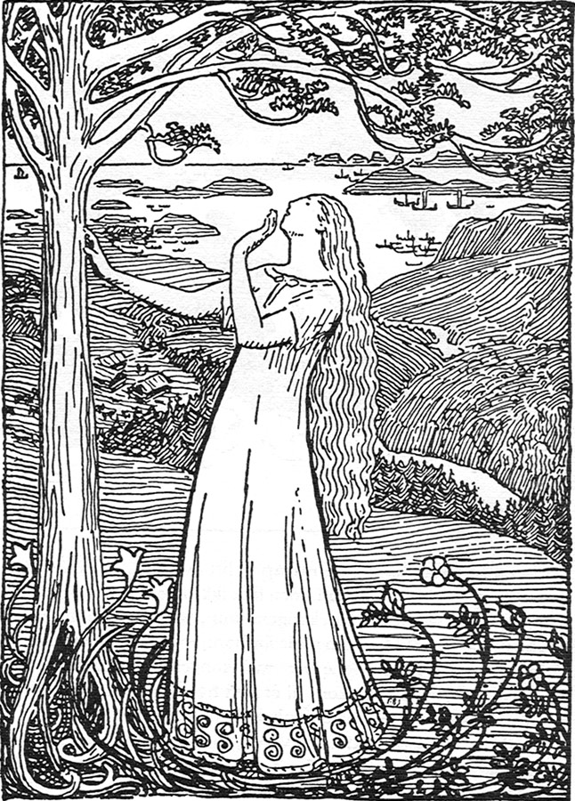 Dronning Ragnhilds drøm (Queen Ragnhild's dream)